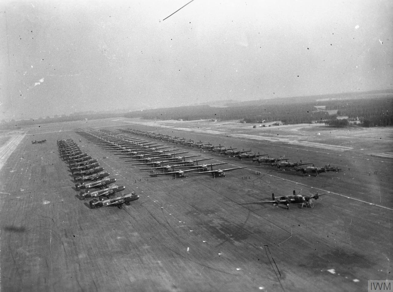 ROYAL AIR FORCE: FIGHTER COMMAND, NO. 38 (AIRBORNE FORCES) GROUP RAF. Operation VARSITY. General Aircraft Hamilcars and Airspeed Horsas, flanked by Handley Page Halifax A Mark VII glider tugs of Nos. 298 and 644 Squadrons RAF, lined up and ready for take-off at Woodbridge, Suffolk. The Woodbridge Emergency Landing Ground was closed on 19 March 1945 for five days as 68 aircraft/glider combinations flew in, 60 of which took part in the operation.